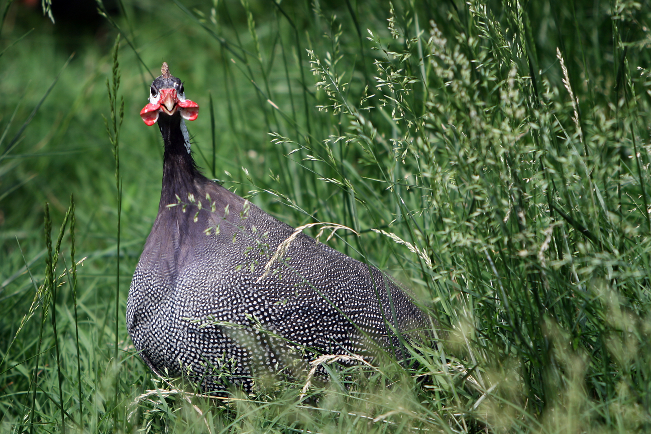 helmeted guinea fowl hanging out in the tall grass